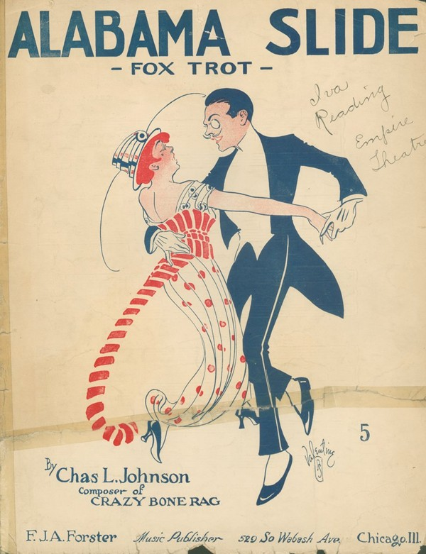 Public domain. Created before 1923. Foxtrot. The author died in 1915, so this work is in the public domain in its country of origin and other countries and areas where the copyright term is the author's life plus 70 years or fewer. This work is in the public domain in the United States because it was published (or registered with the U.S. Copyright Office) before January 1, 1924. This file has been identified as being free of known restrictions under copyright law, including all related and neighboring rights.